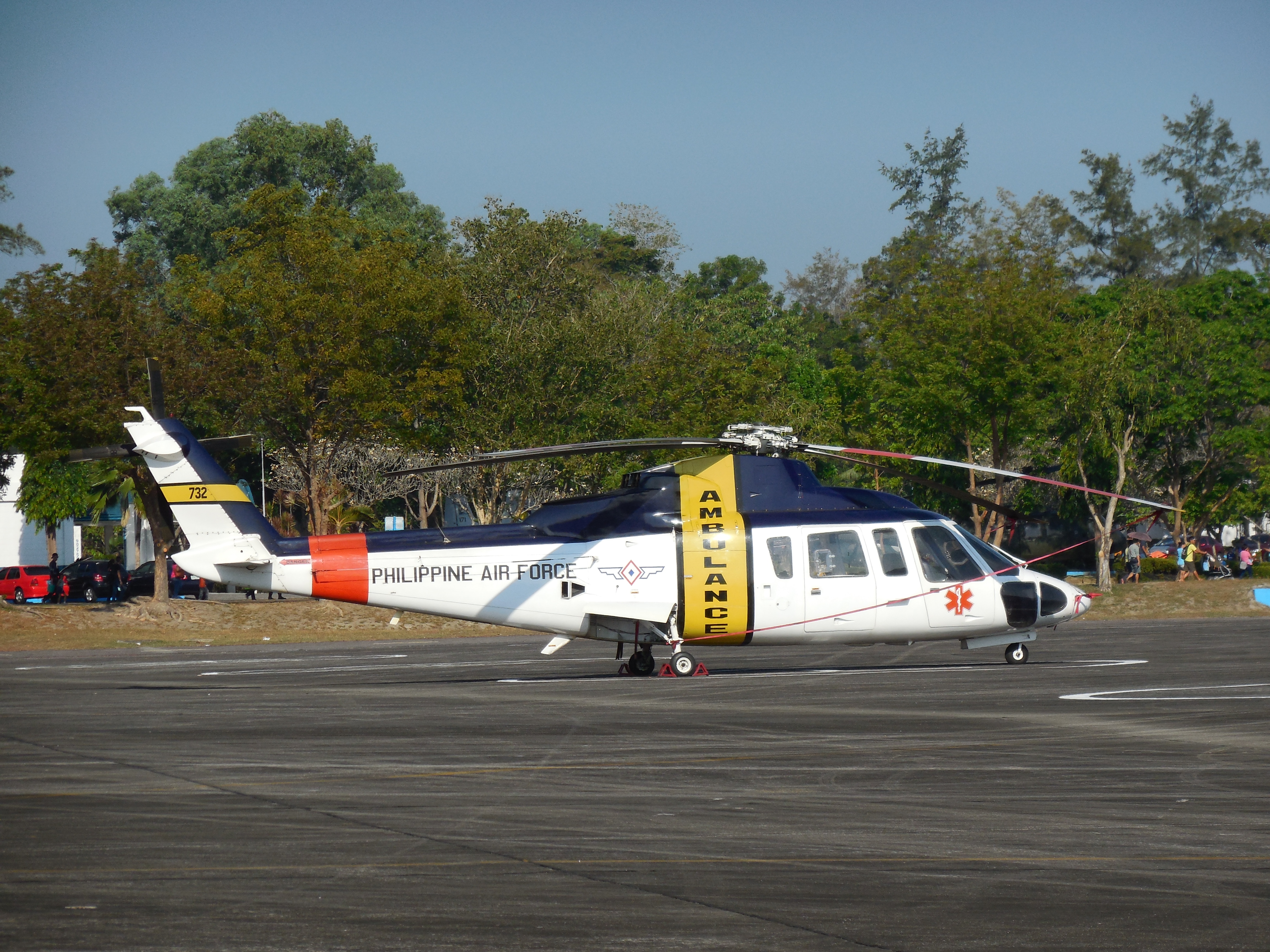 A Sikorsky S-76A air ambulance of the Philippine Air Force at Clark Freeport Zone, Angeles, Pampanga.